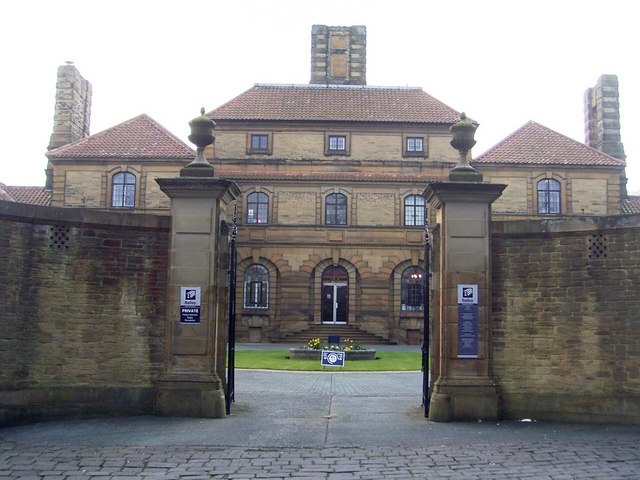 Heathcote Ilkley's most famous building, Heathcote was designed by Sir Edwin Lutyens for a manufacturer in 1905; now used by various businesses for offices.